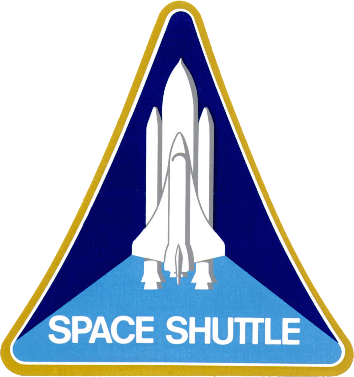 Shuttle program patch